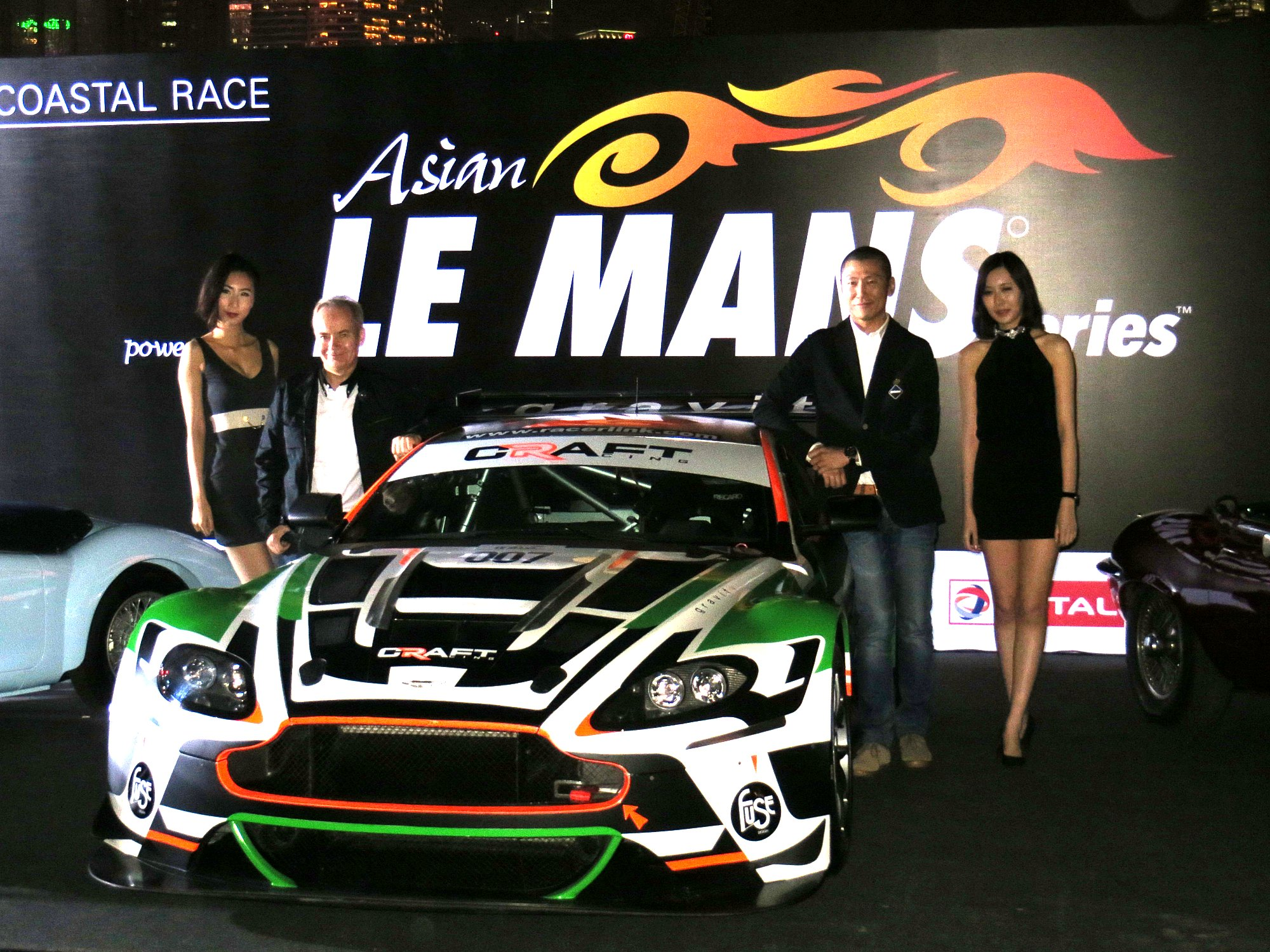 2013 Asian Le Mans launch event at Hong Kong Yacht Club on 5th March 2013.中文（香港）: 2013年亞洲勒芒系列賽於3月5日在香港遊艇會舉行發佈會。